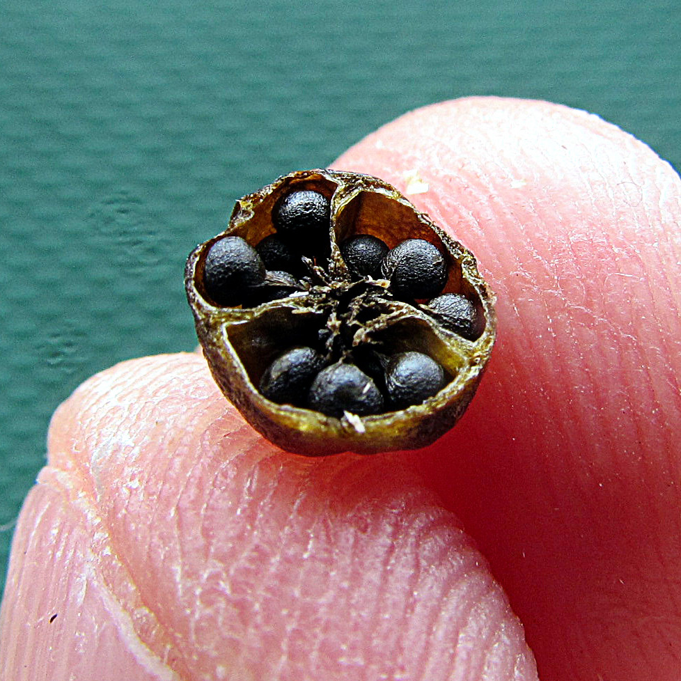 Sisyrinchium angustifolium Mill seeds